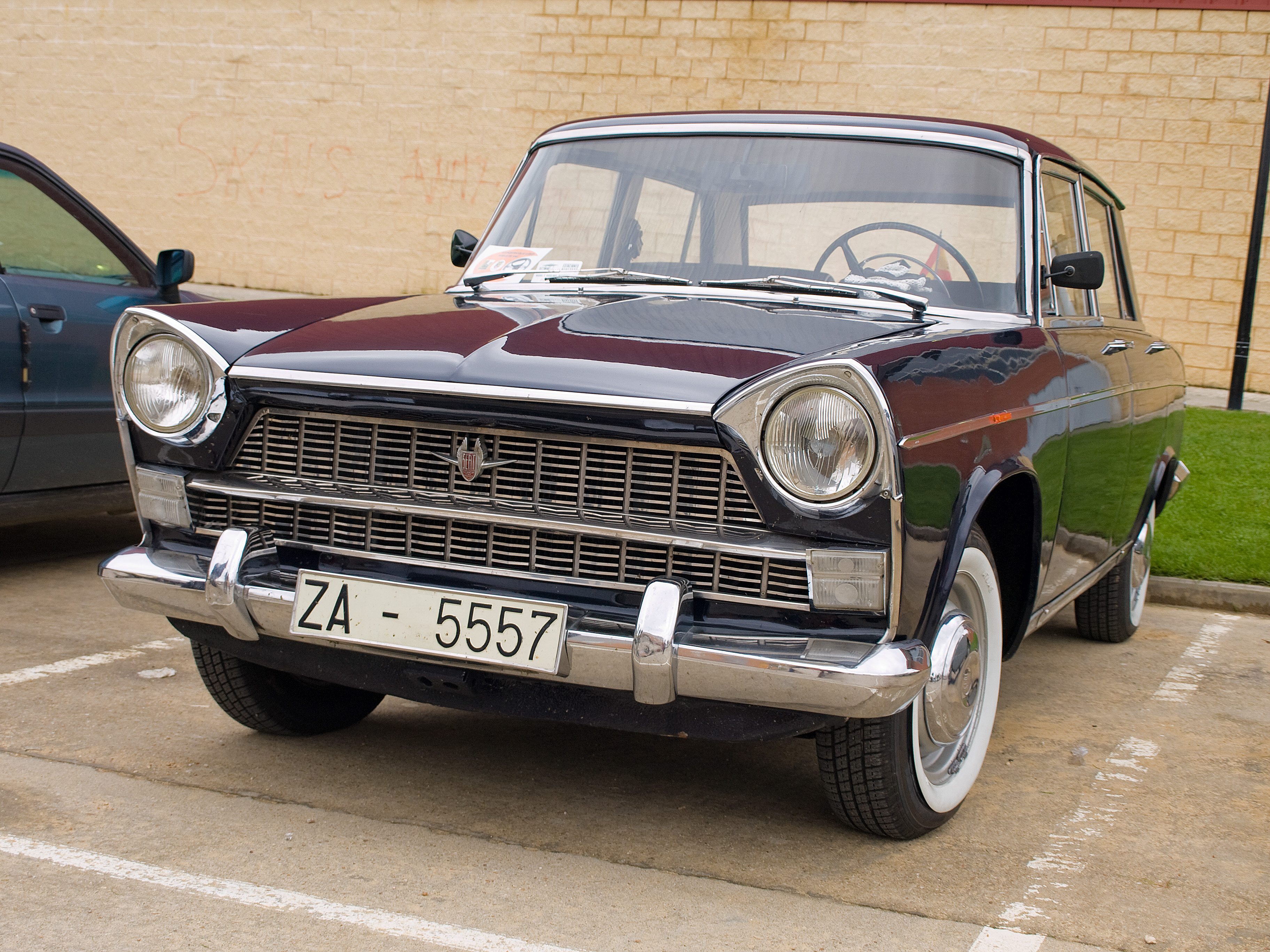 Seat 1400 C, very similar to the ulterior Seat 1500